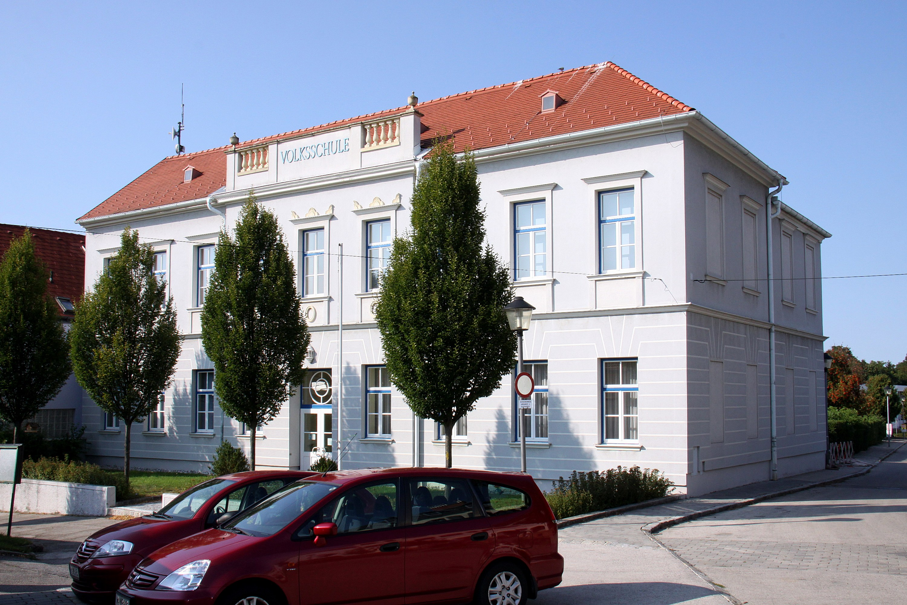 Volksschule - Schattendorf Object location47° 42′ 34.7″ N, 16° 30′ 47.35″ E